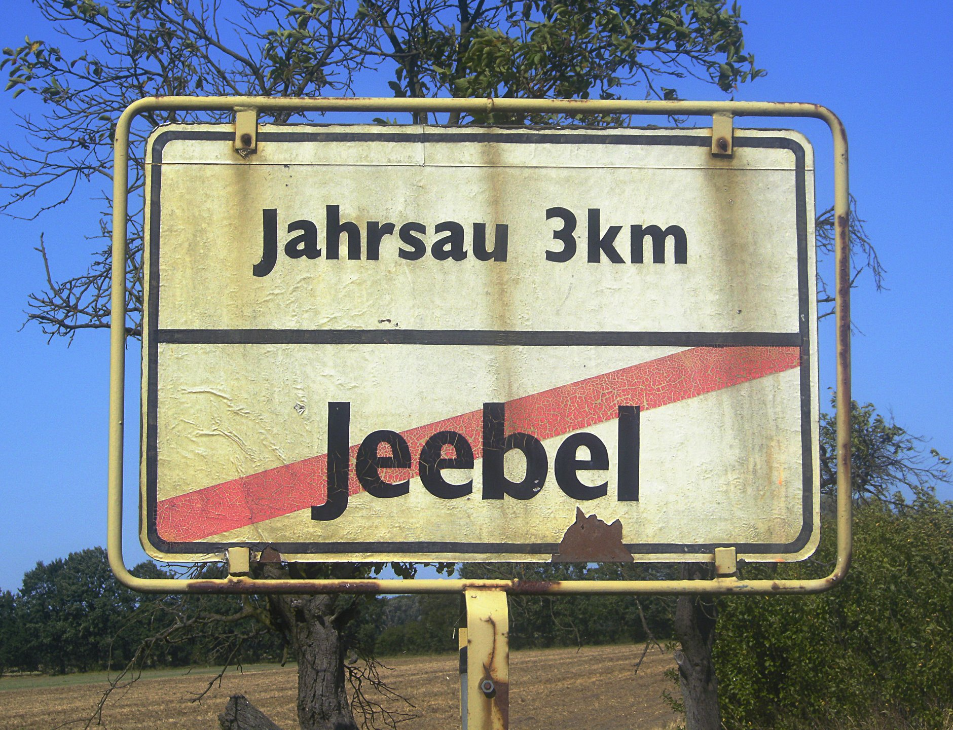 town sign at the exit of Jeebel (Saxony-Anhalt, Germany) pointing to the former village of Jahrsau